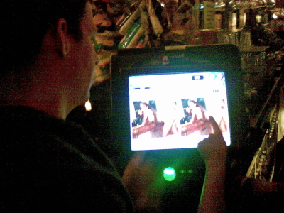 Photograph of Adam Leventhal